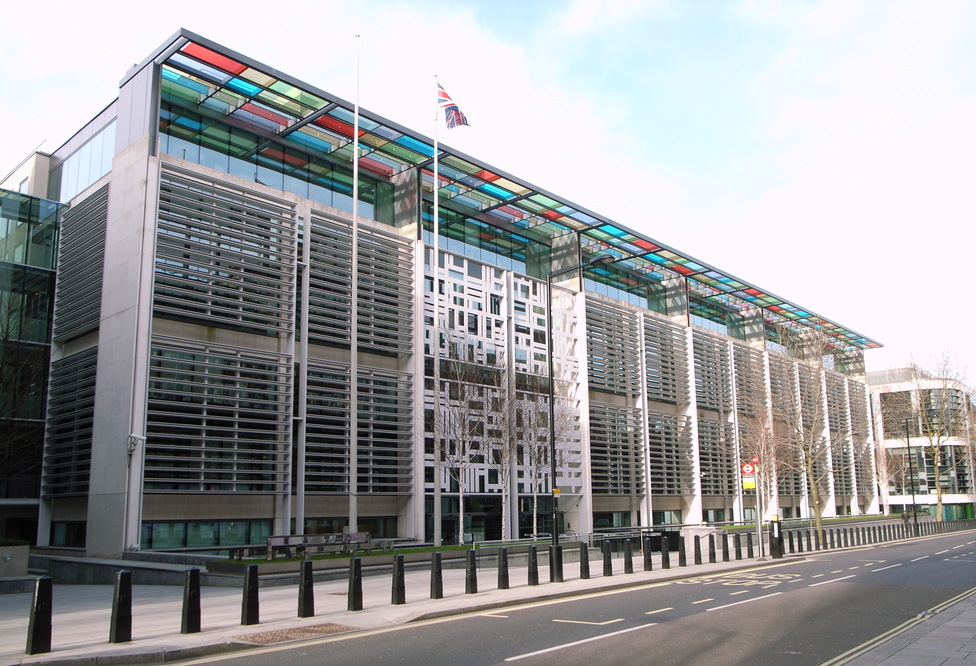 Marsham Street (The Home Office), Westminster, London (2000–5) by Terry Farrell and Partners